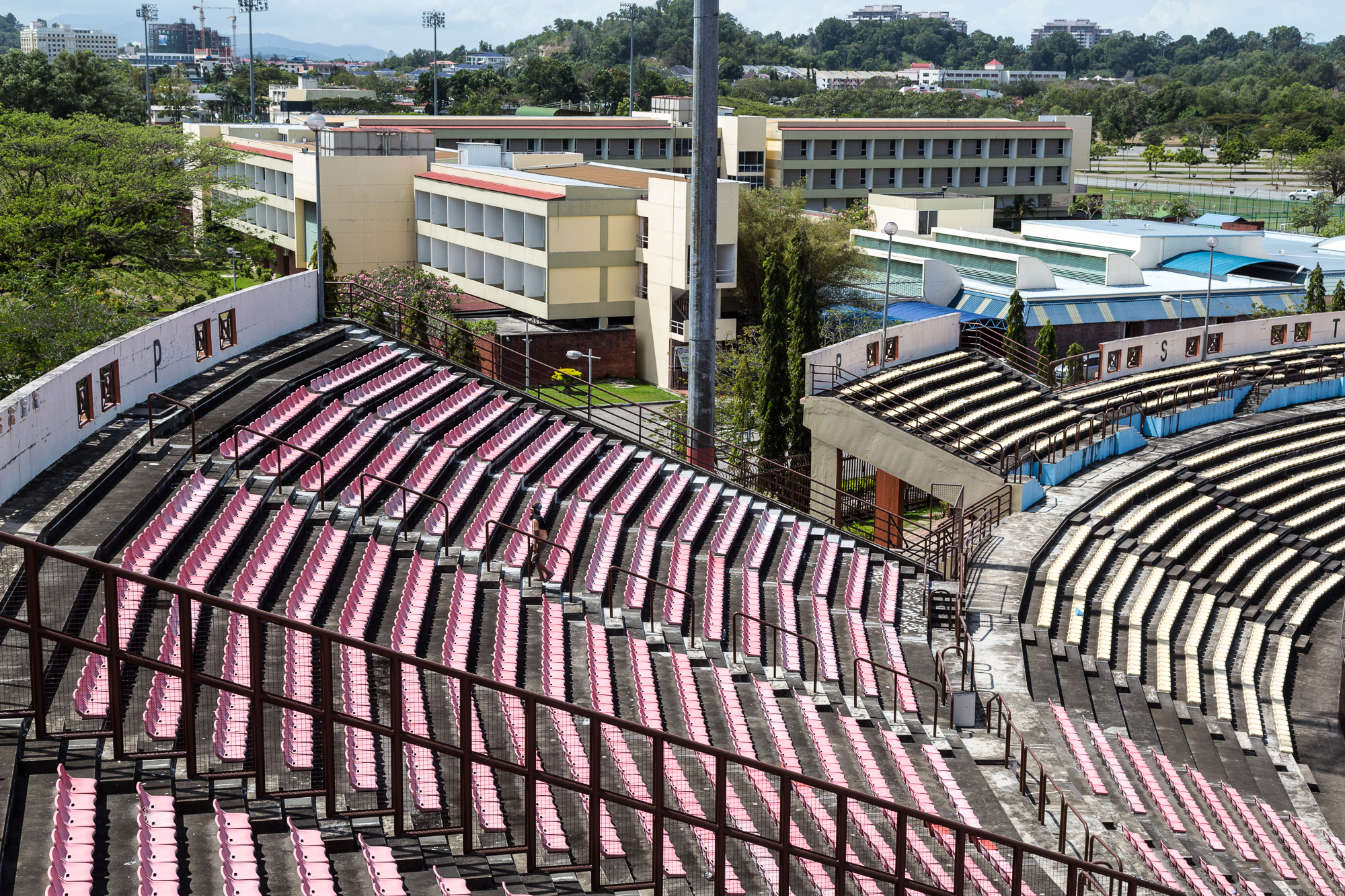 Kota Kinabalu, Sabah: Likas Stadium